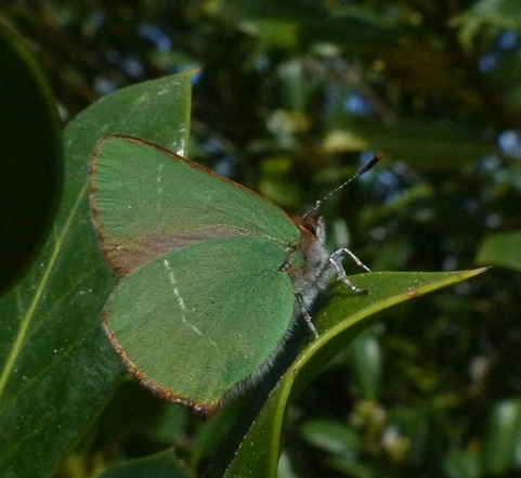 Near Castellar (Catalonia).